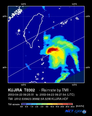 On April 23, 2003, the Tropical Rainfall Measurement Mission measured rainfall totals within Typhoon Kujira as it approached Taiwan.